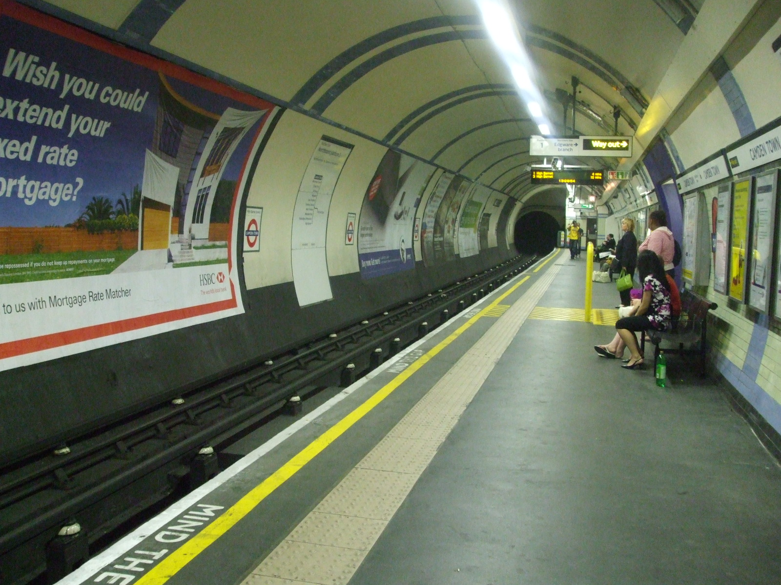 Camden Town northbound High Barnet branch platform looking south